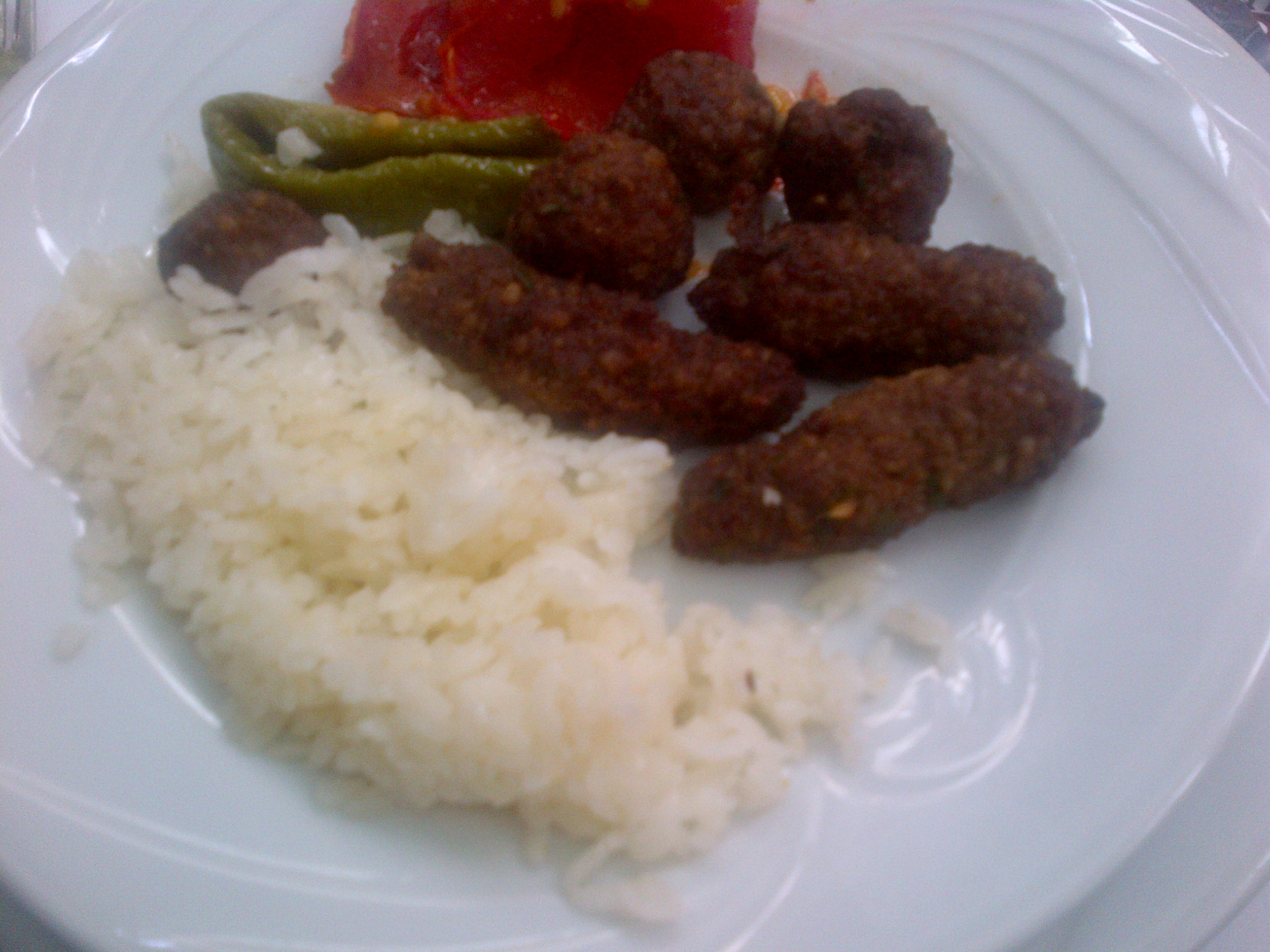 "Kuru köfte" (literally dry meatballs) are a "köfte" dish from the Turkish cuisine. These cylindrical köftes (also rarely as meat "balls" as in the image) are eaten cold. This picture was taken at the traditional Turkish cuisine restaurant "Yanyalı Fehmi" in Kadıköy.